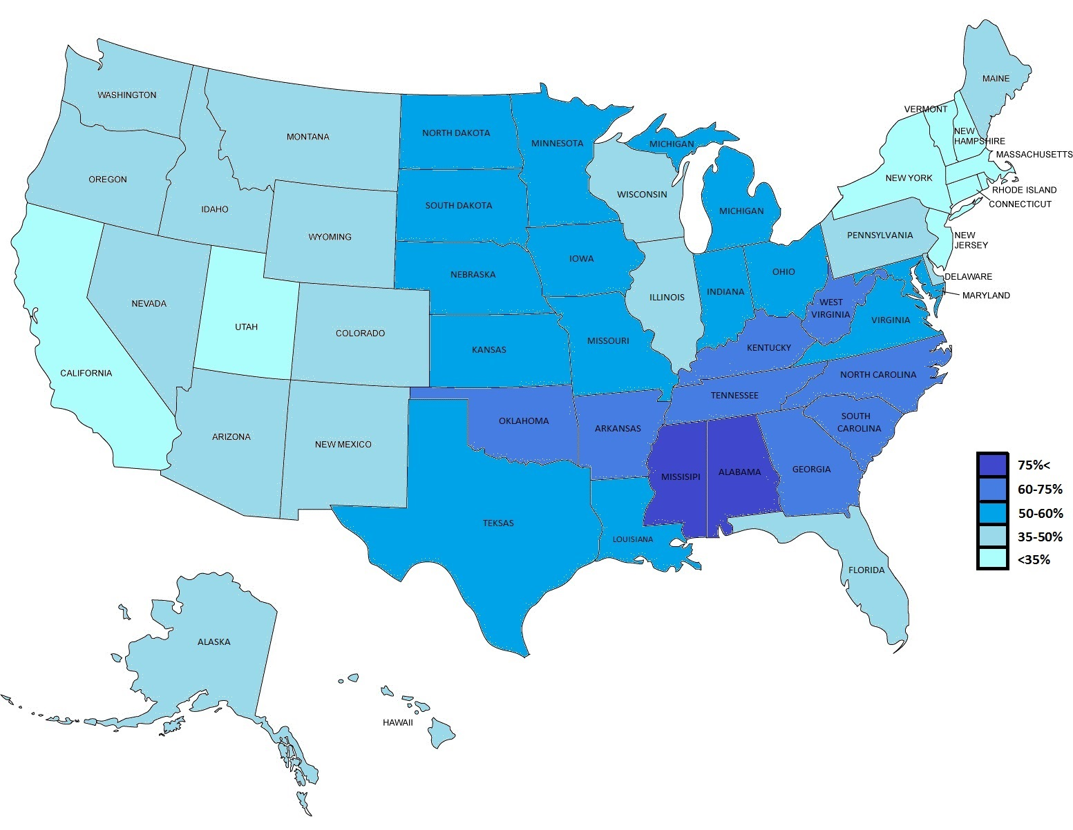 The deployment of Protestantism in the United States based on Pew Research Center research, 2014.